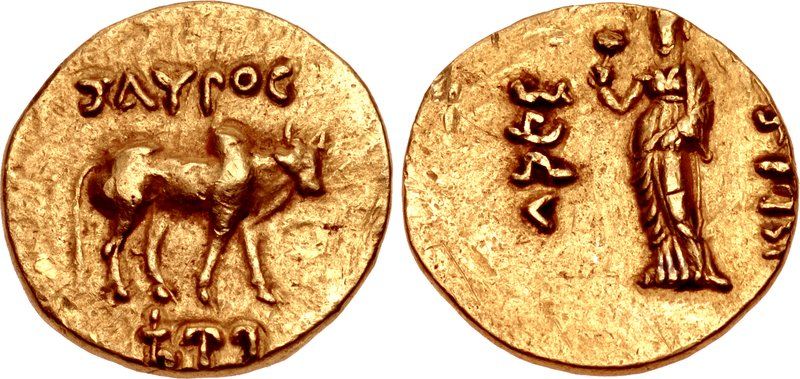 Pushkalavati coin, circa 58-12 BC